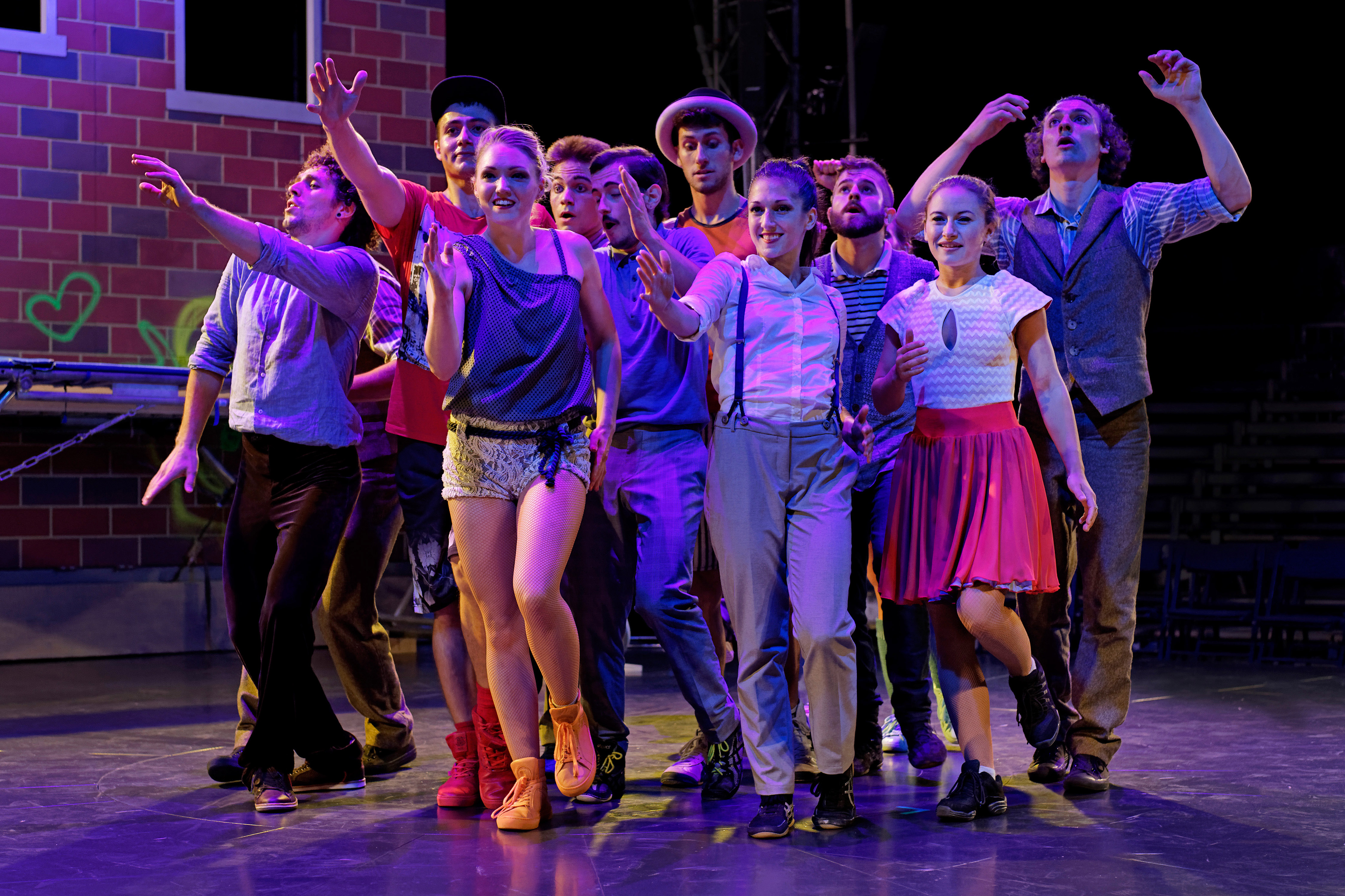 Circus Monti Ensemble 2016